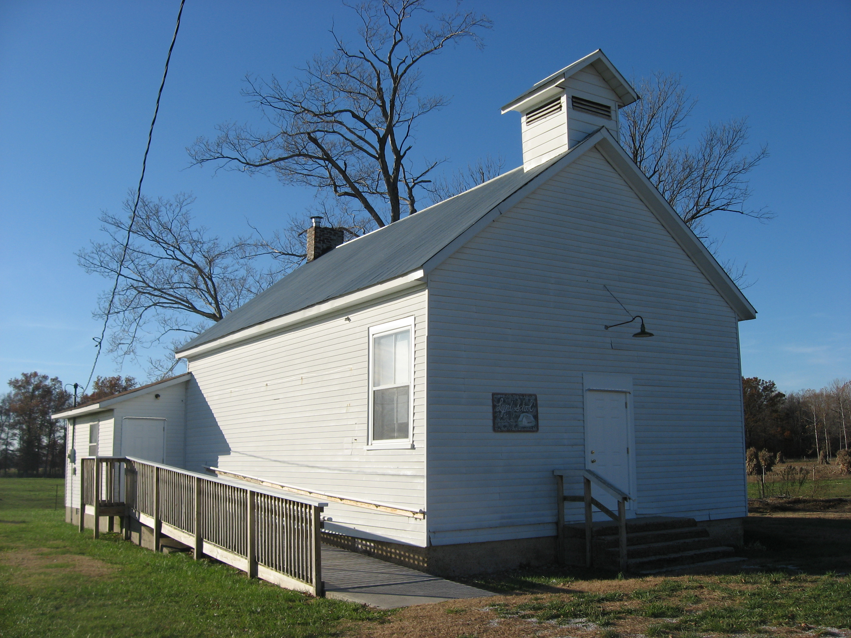 Front and southern side of the Lynd School, located at 723 N. Lynd Road northwest of Livonia in Stampers Creek Township, Orange County, Indiana, United States. Built in 1925, it is listed on the National Register of Historic Places.